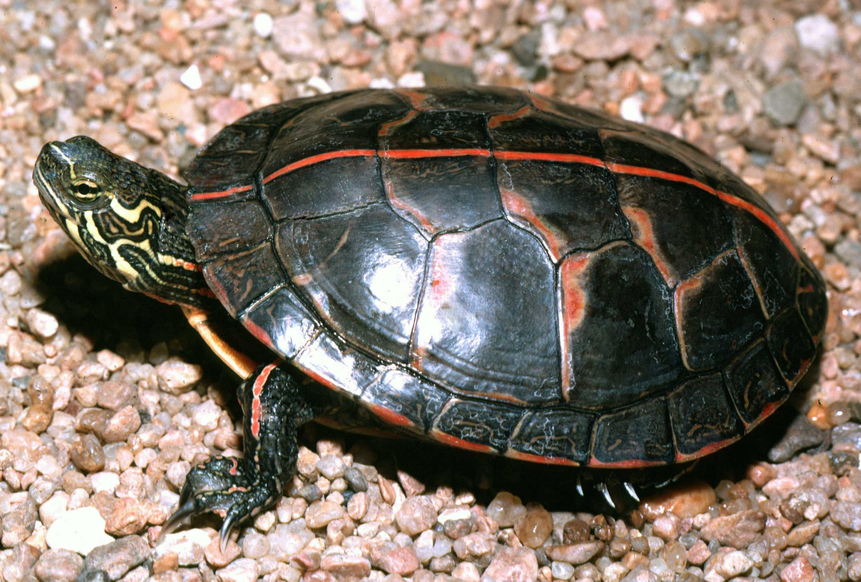 side to top view of a southern painted turtle (for use in a gallery with common aspect ratios)